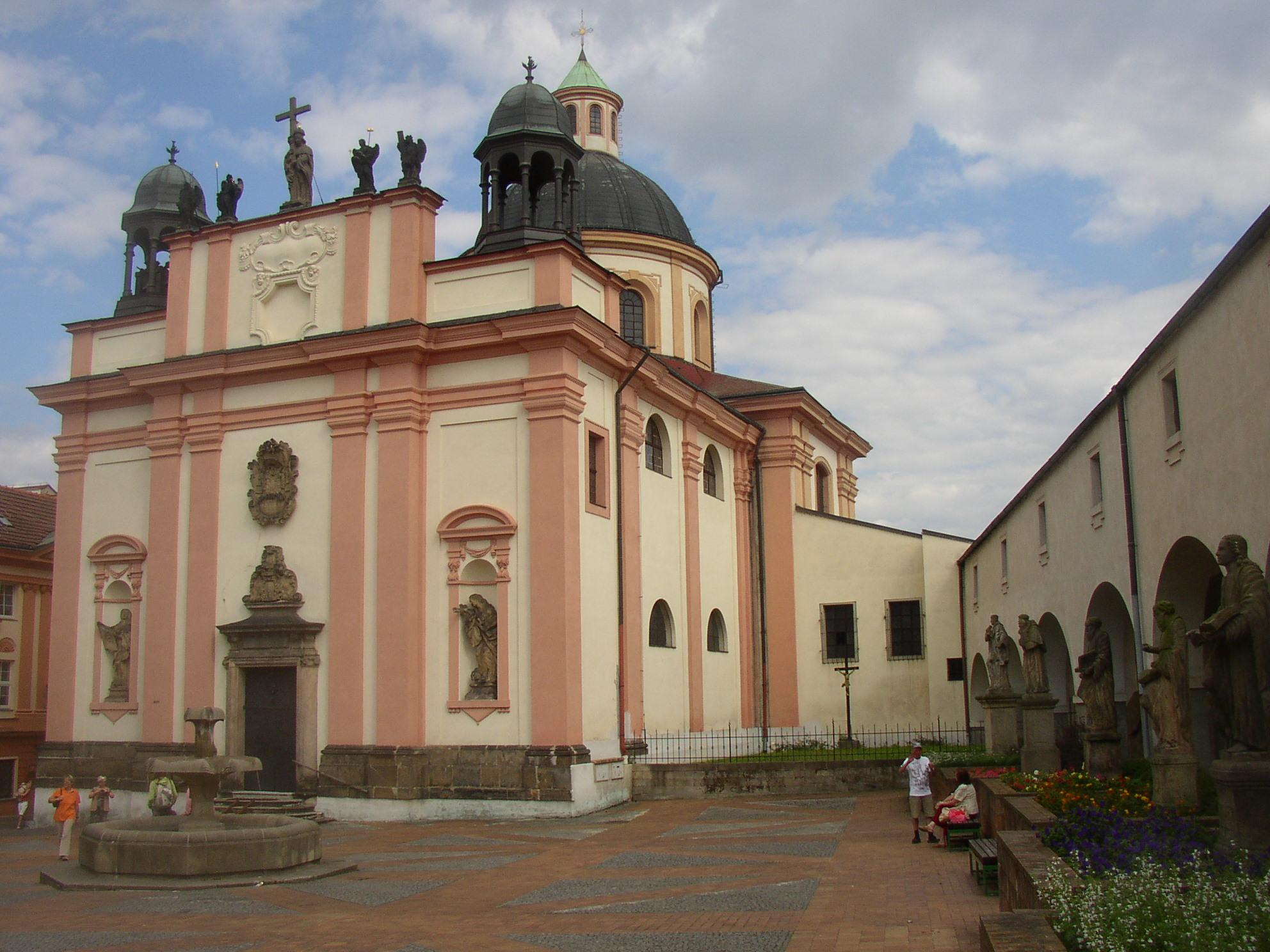 Church of he Holy Cross Děčín, Czech Republic.